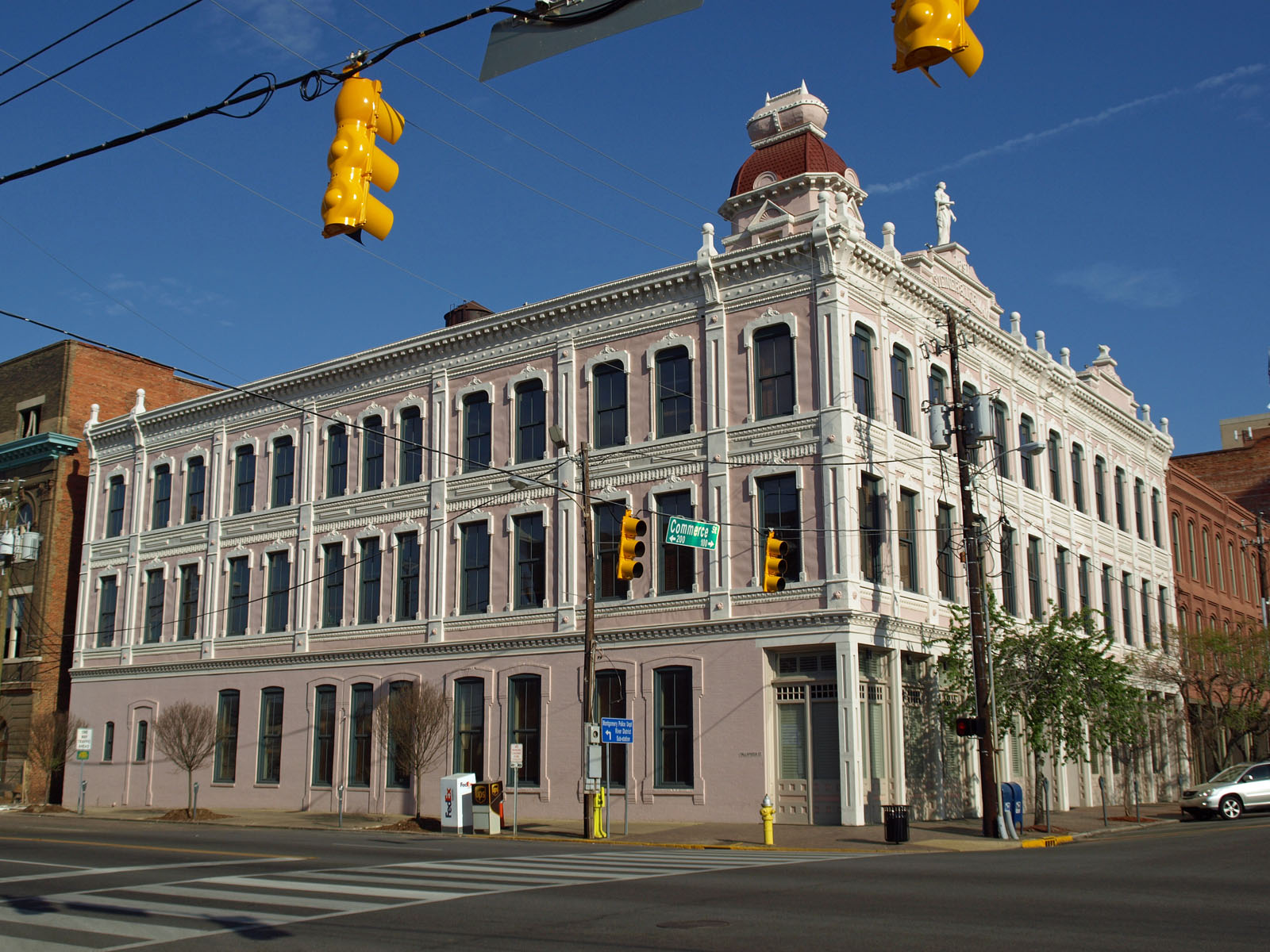 Northwest side of the Steiner-Lobman and Teague Hardware Buildings in Montgomery, Alabama